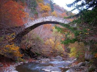 Rkoni Bridge